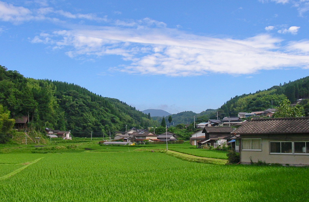 kawaguchi